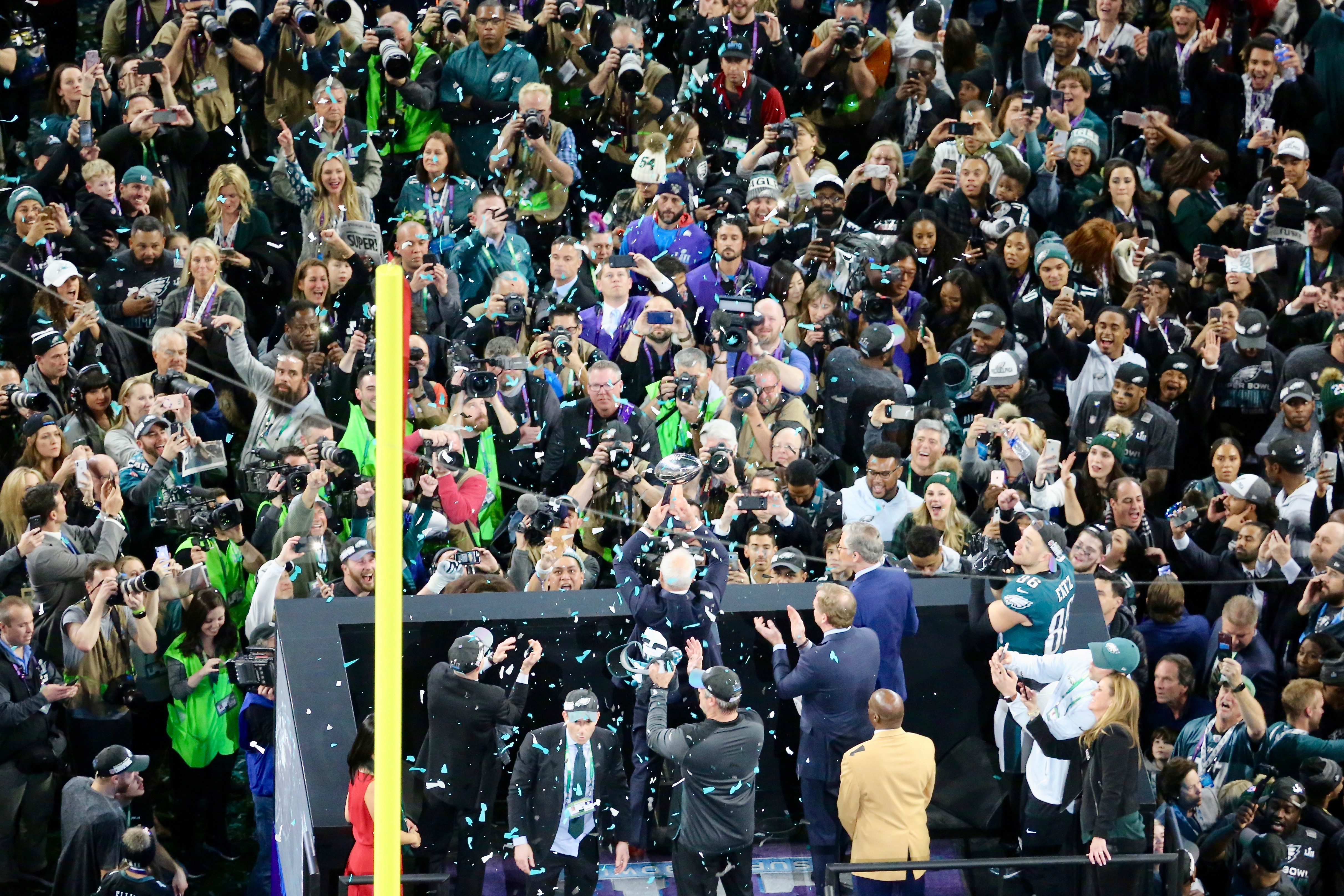 The Philadelphia Eagles are presented with the Vince Lombardi Trophy in honor of winning Super Bowl LII in Minneapolis, Minnesota (Brian Allen/VOA)